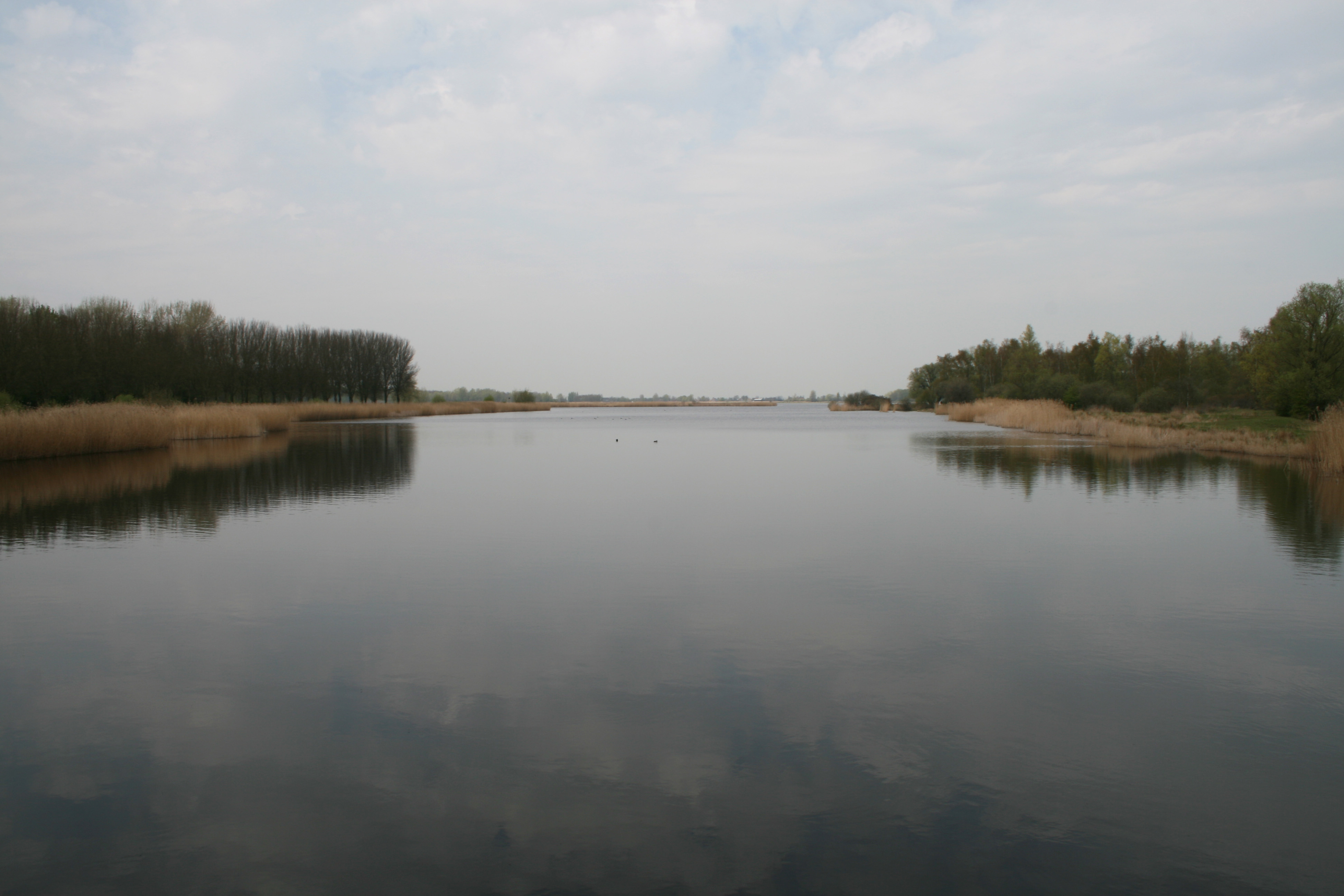 River Twiske in nature area Het Twiske in Noord-Holland, The Netherlands.